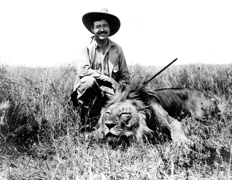 Ernest Hemingway on safari, Africa. January, 1934.